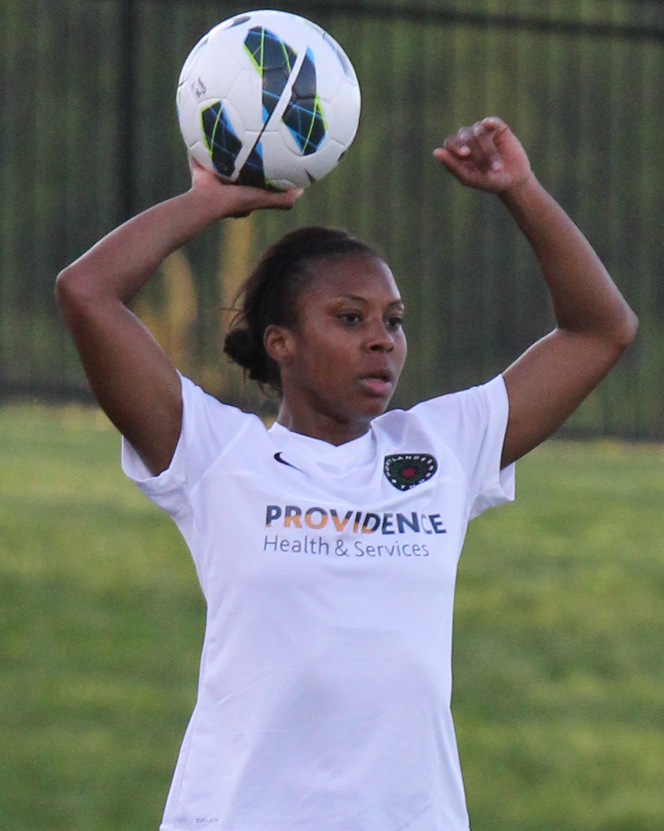 2013-05-04 Thorns-66